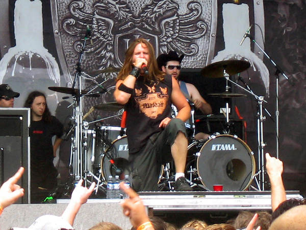 OZFest 2006 07/22/06 East Troy, WI